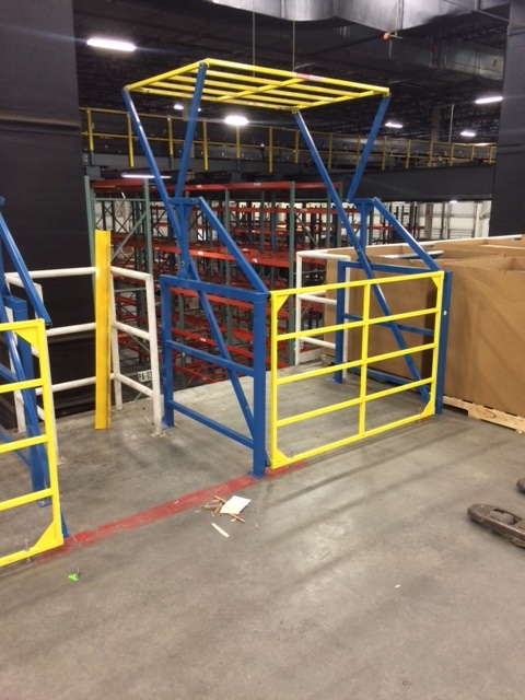 The High Pallet Pivot safety gate from Mezzanine Safeti-Gates, Inc. uses a dual-gate system to ensure the safety of employees working in pallet drop areas on elevated platforms and mezzanines in distribution centers or manufacturing facilities.